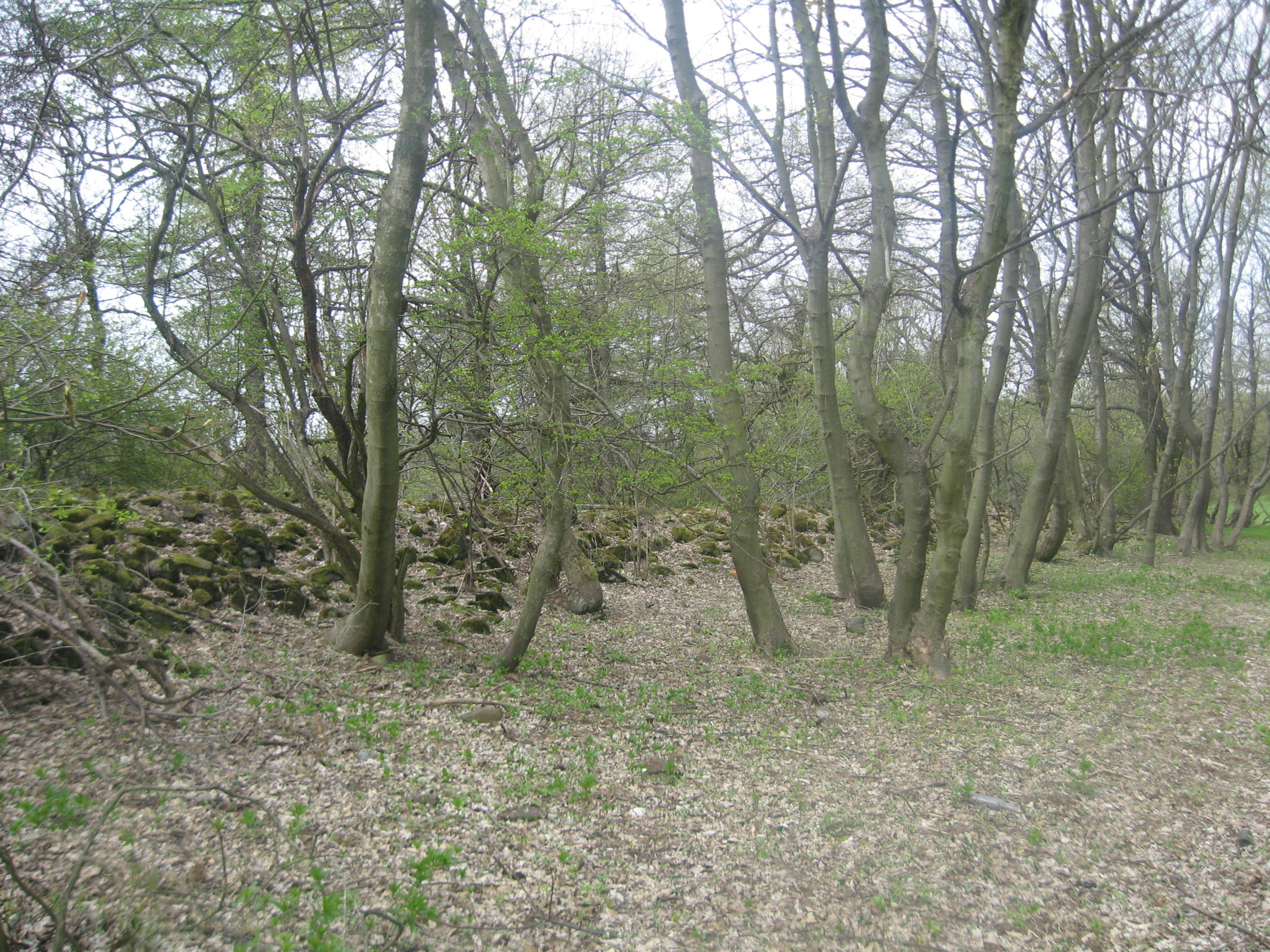 Stone walls from 8th century b.c. in the hill Hradišťany